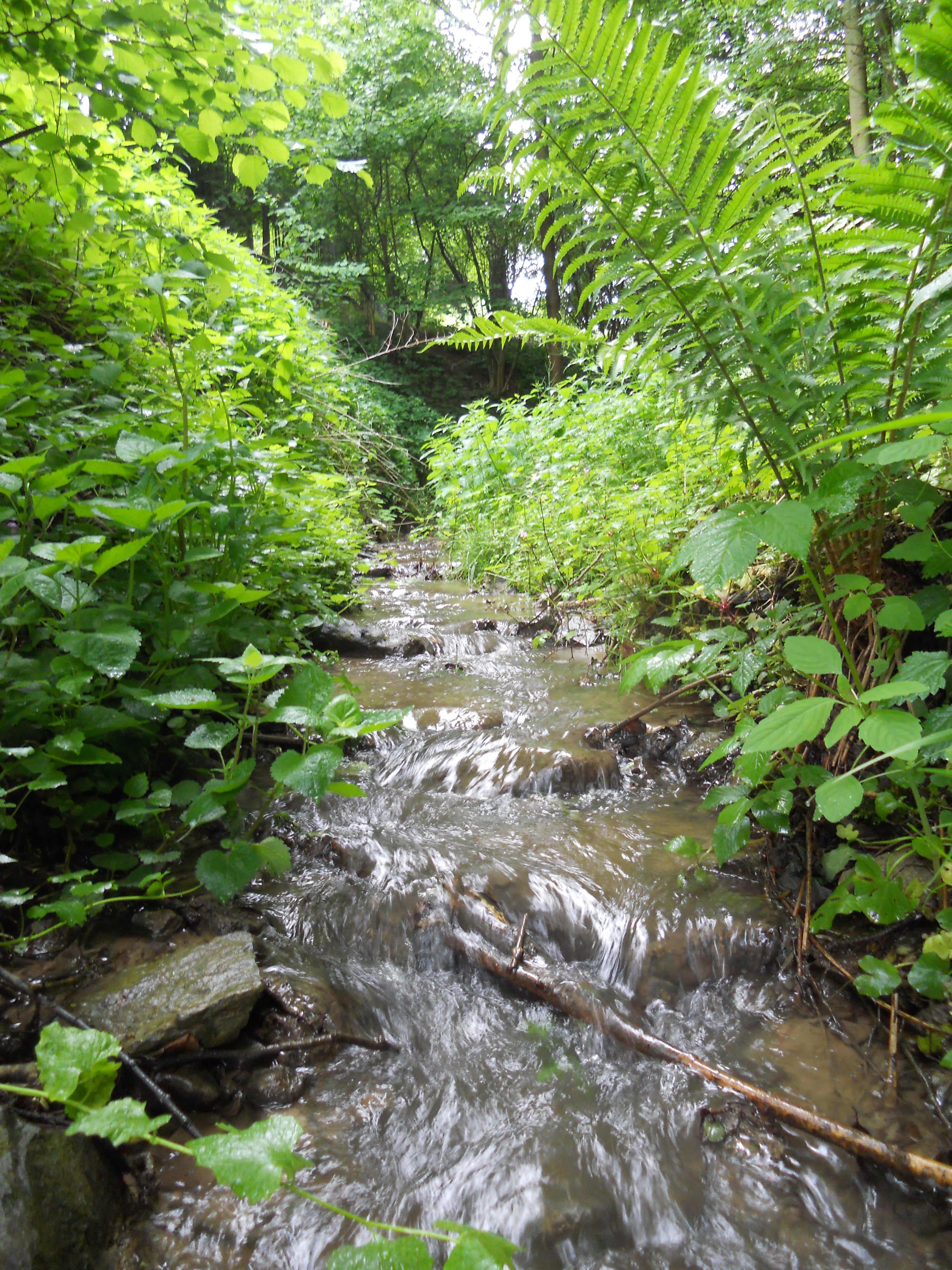 Ockenfelserbach bei Kasbach